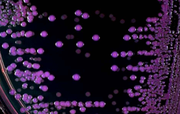 Practically none of the E. coli O157:H7 strains ferment D-sorbitol or do so very slowly; about 80% of other strains do ferment it. Colonies of E. coli O157 are colorless on Sorbitol MacConkey (SMAC) agar plates, while non-O157 E. coli colonies are pink.